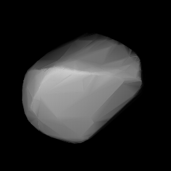 3D convex shape model of 918 Itha, computed using light curve inversion techniques. J. Hanuš, J. Ďurech, M. Brož, B. D. Warner (June 2011). "A study of asteroid pole-latitude distribution based on an extended set of shape models derived by the lightcurve inversion method". Astronomy and Astrophysics 530: A134. ISSN 0004-6361. arXiv